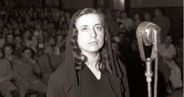 Musine Kolalari (1917-1983), Albanian writer, imprisoned by the Communists. Photo taken during her trial in 1946.